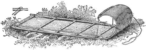 To the trapper it is especially valuable for all purposes of transportation. The flat bottom rests upon the surface of the snow, and the weight being thus distributed a load of two or three hundred pounds will often make but little impression and can be drawn with marvellous ease. Our illustration gives a very clear idea of the sled, and it can be made in the following way: the first requisite is a board about eight feet in length and sixteen or more inches in width. . . .